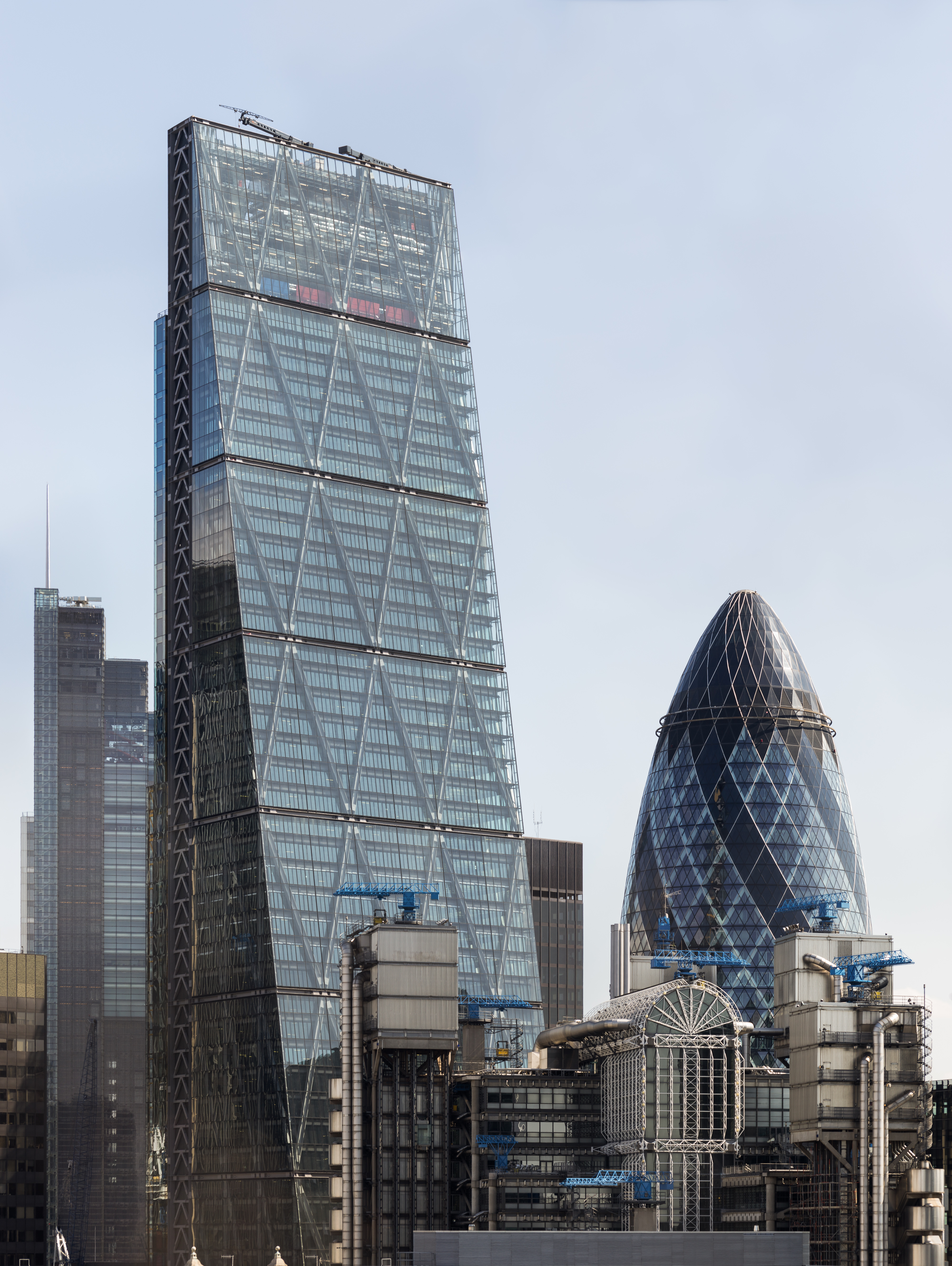 "The Cheesegrater" (122 Leadenhall Street) and "The Gherkin" (30 St Mary Axe). Taken from The Monument. The rear of the Lloyd's building makes up the lower foreground. Photographer's notes: Each of the 21 frames that make up this image were taken with a Sony A33 camera and Sony 55-300 lens at 130mm. The exposure was f/6.3, 1/400s, ISO 100. The viewing platform on the Monument is covered in a wire cage with holes too small to stick a DSLR lens through. This image was only possible by hand-holding a telephoto lens aimed through the holes, which isn't ideal. The resulting stitched image was downsized to achieve an acceptable degree of sharpness.